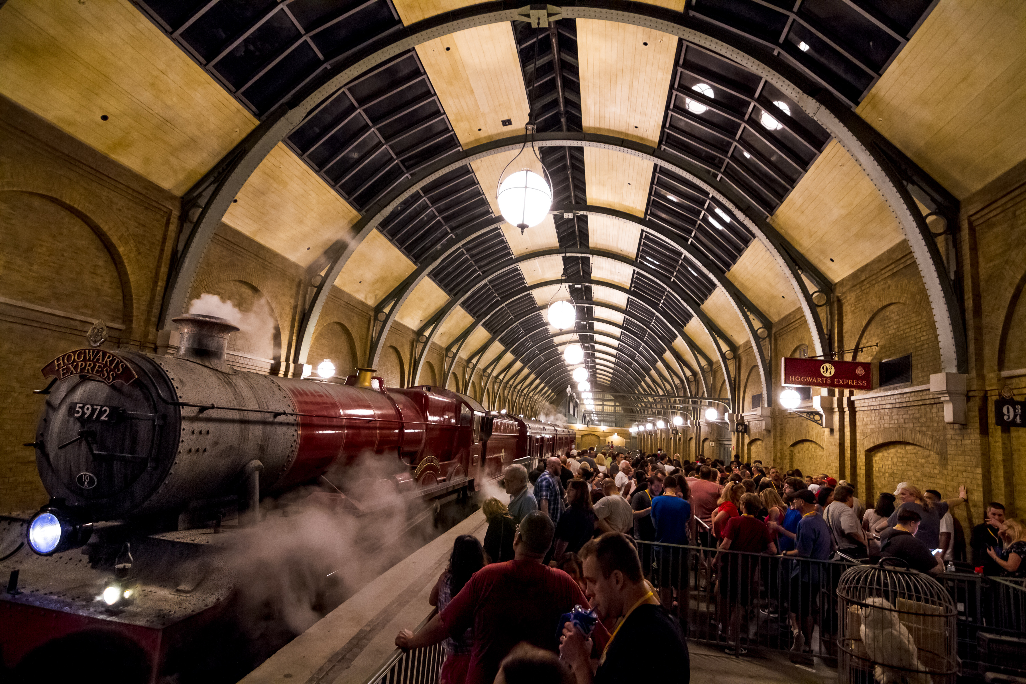 This is a photo of the King's Cross station replica at the Universal Orlando resort at night. The Hogwarts Express can also be seen.